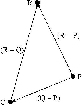 Triangle identity in affine space.